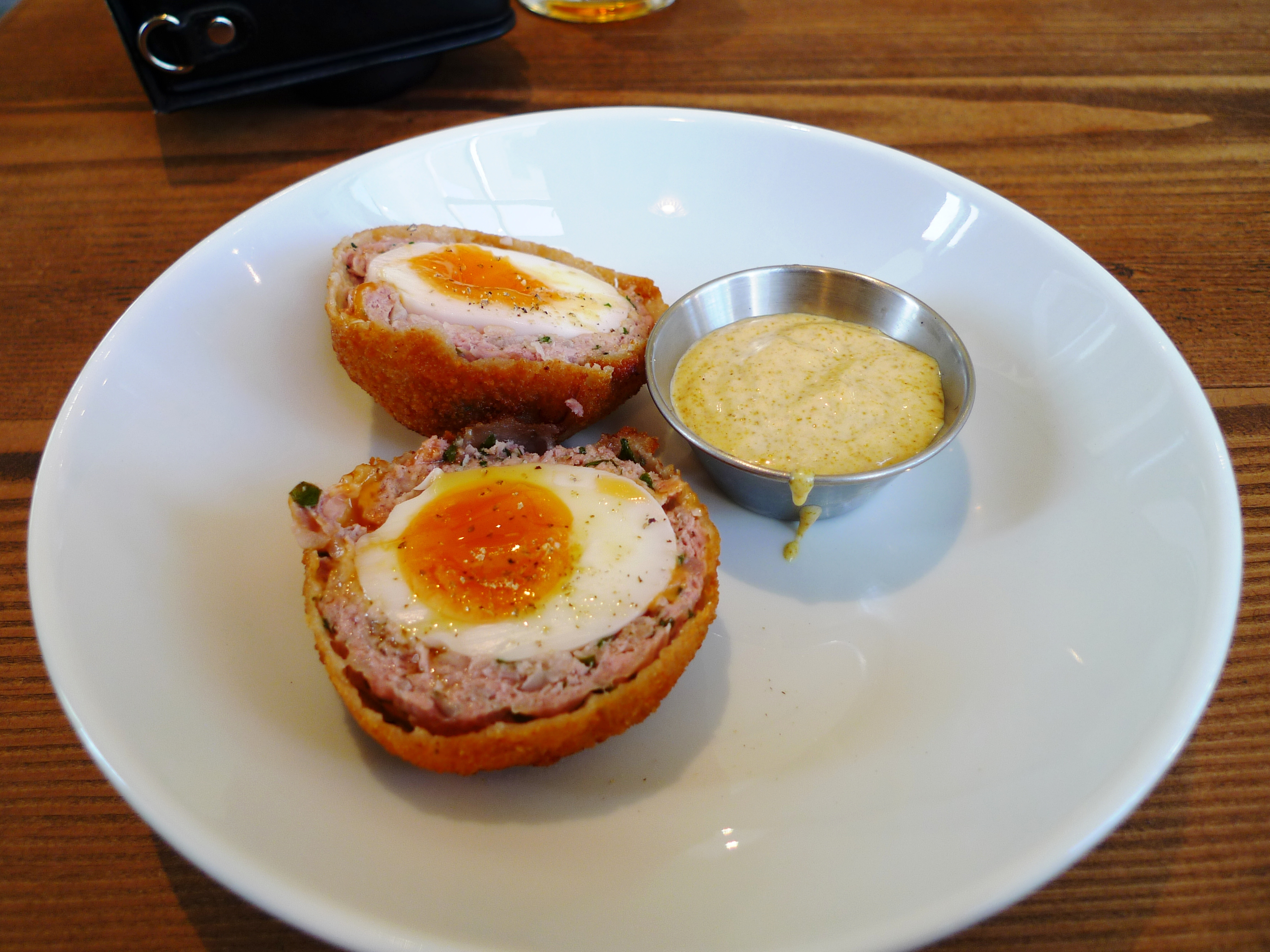 Scotch egg in April 2011. An excellent example. At The Draft House, Tower Bridge Road. (A more recent scotch egg, same place.)